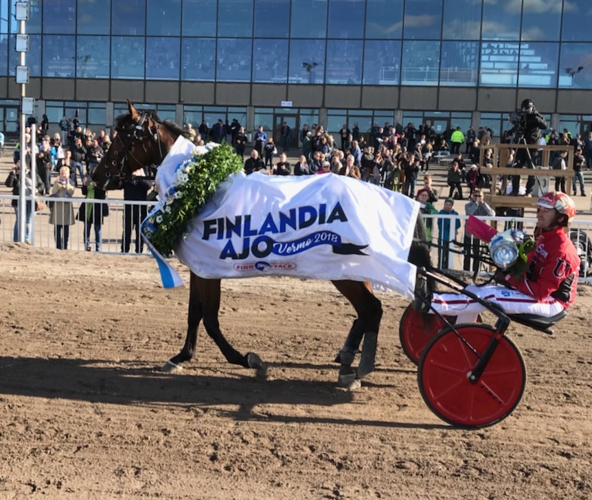 Pastore Bob & Johan Untersteiner after winning Finlandia-Ajo 2018-05-05.